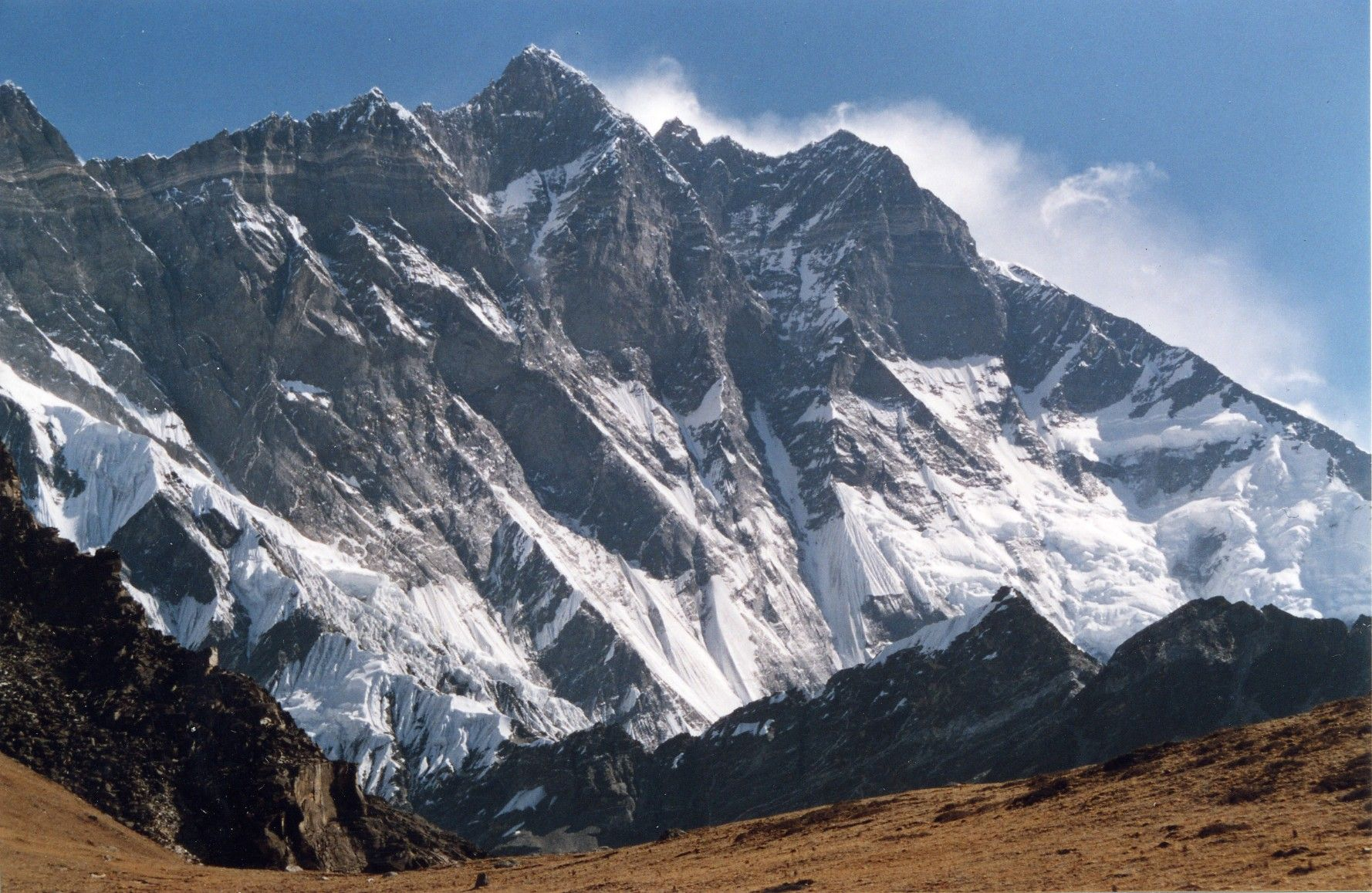 Lhotse, south face, view from Chukhung Ri. This peak is connected to Mount Everest via the South Col. In addition to the main summit at 8,516 meters above sea level. The south face rises 3.2 km in only 2.25 km of horizontal distance, which makes it the steepest face of this size in the world.